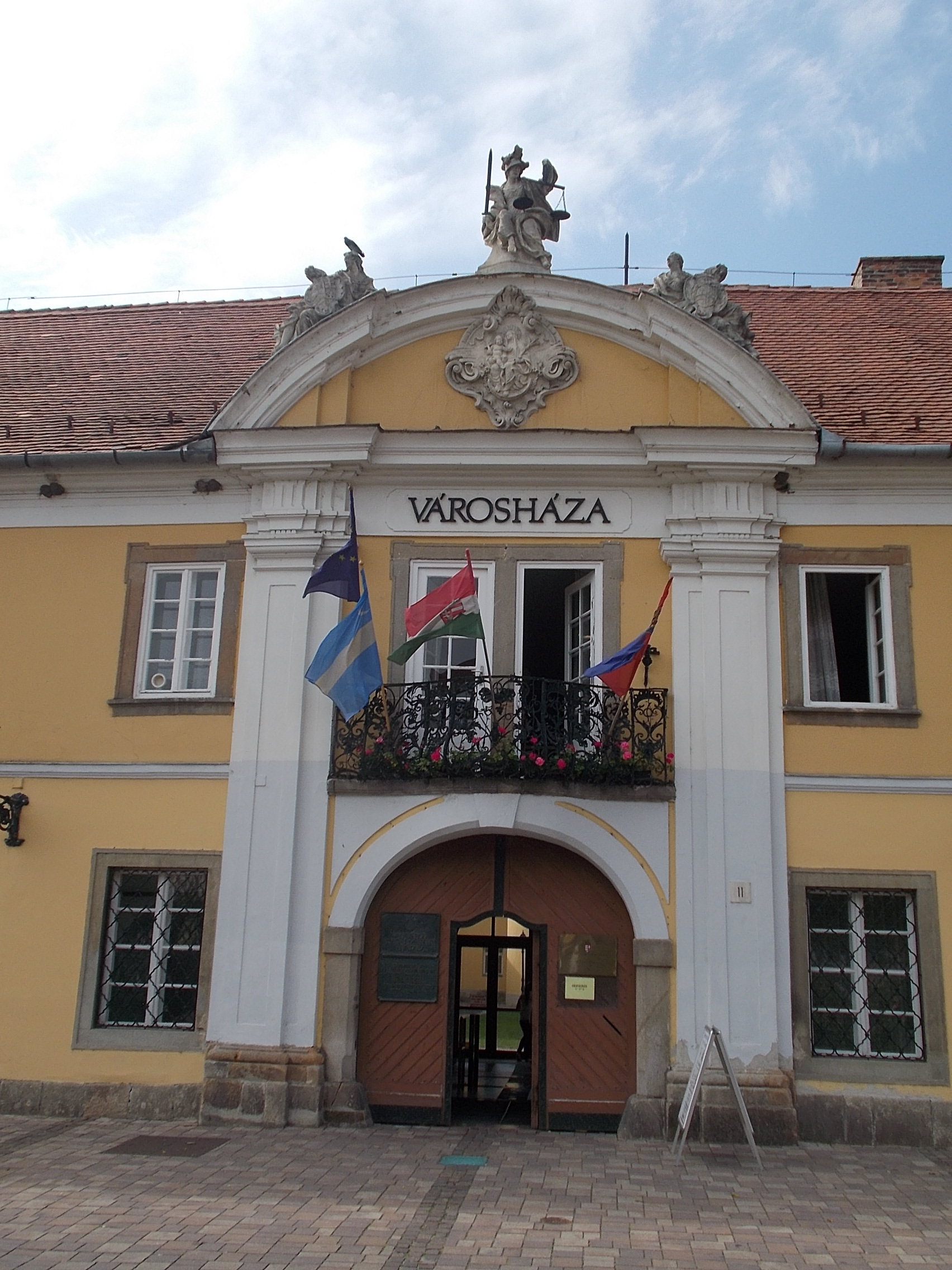 The Town Hall is a historic and listed building. According to a map of 1680, there used to be a Turkish bath at this place. However, the cadastral register of 1718 shows the town hall at the same place. It was Bishop Mihály Frigyes Althann who started to have the building constructed in 1735, and it was finished only for the honour of Theresa Maria's visit in 1764. TThe façade decorated with the statue of Justica, the goddess of Justice. Both on its right and left side a lying figure of a woman, the Hungarian and Migazzi coat of arms ornament the building. - 11 Március 15. Square, Vác, Pest County, Hungary